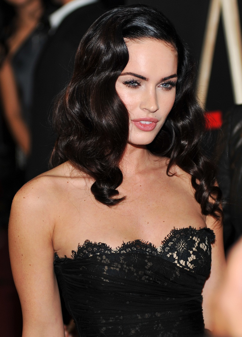 Megan Fox @ Jennifer's Body screening